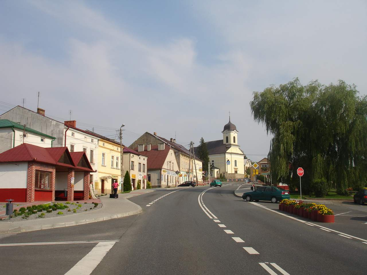 Brzostek (main street)